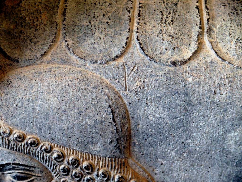 Carved Relief, detailed signature of the artist, Persepolis, Iran